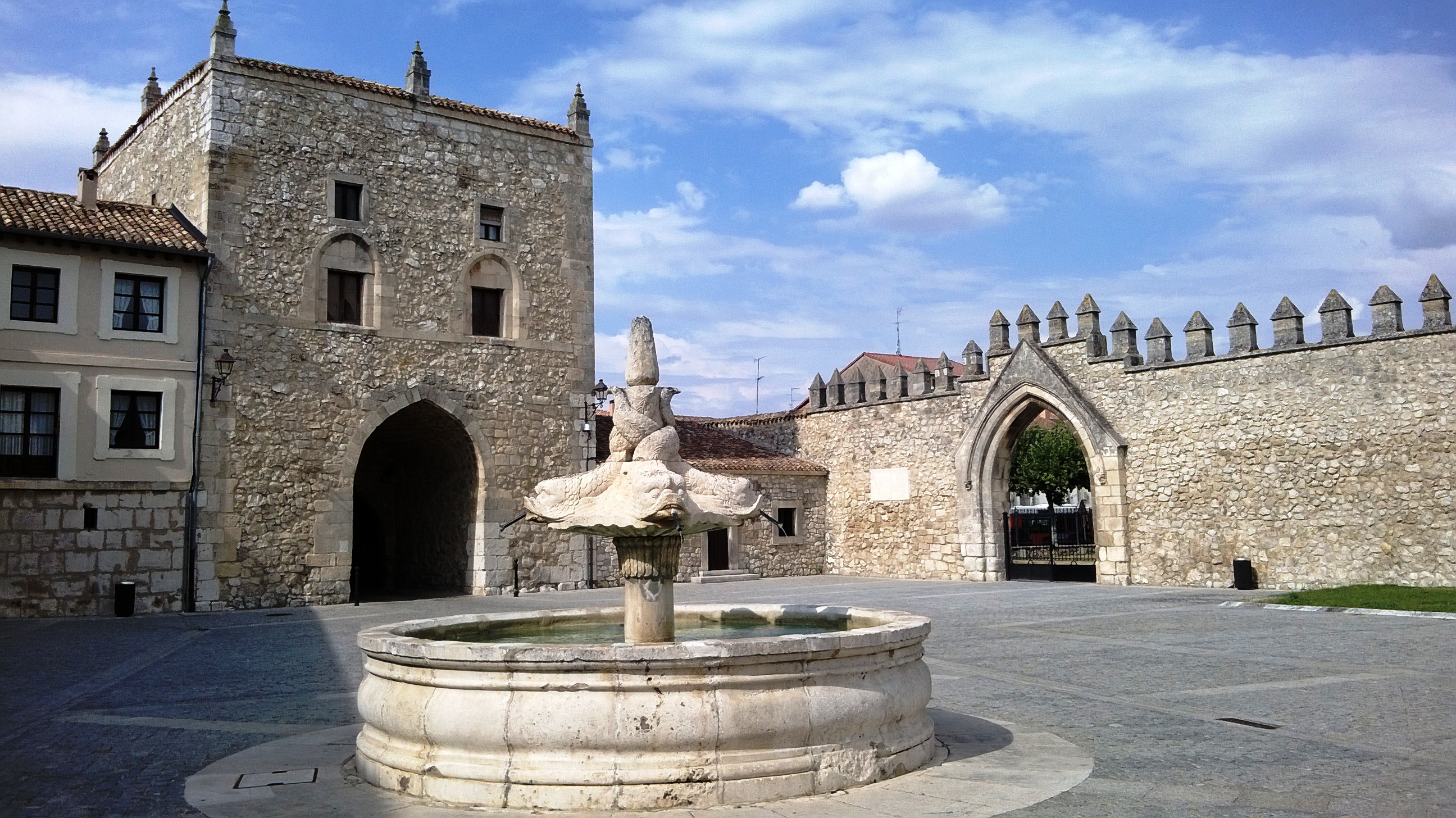 Interior del monasterio.